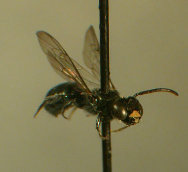 Ceratina acantha male